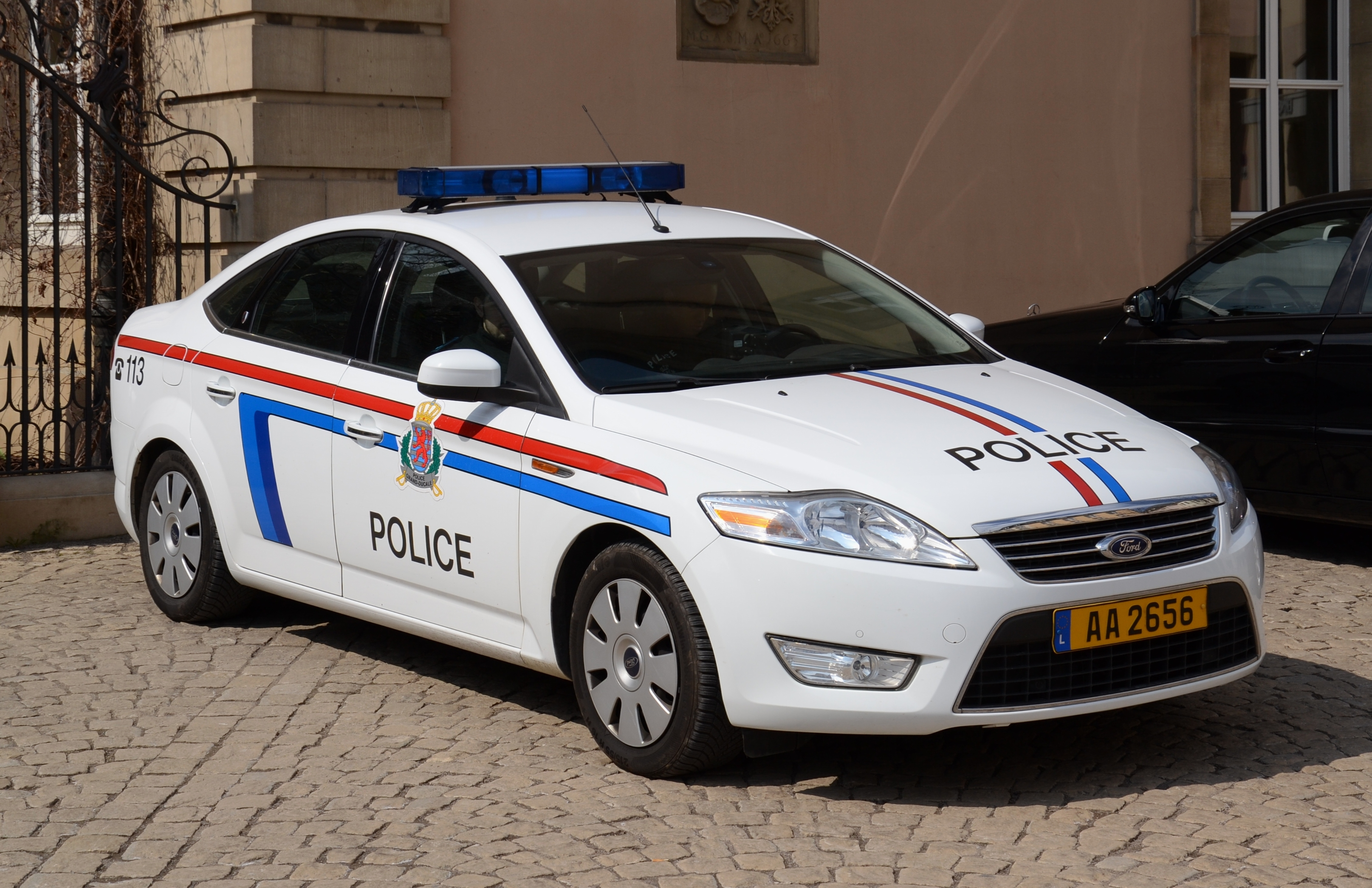 Grand Ducal Police car in Luxembourg City